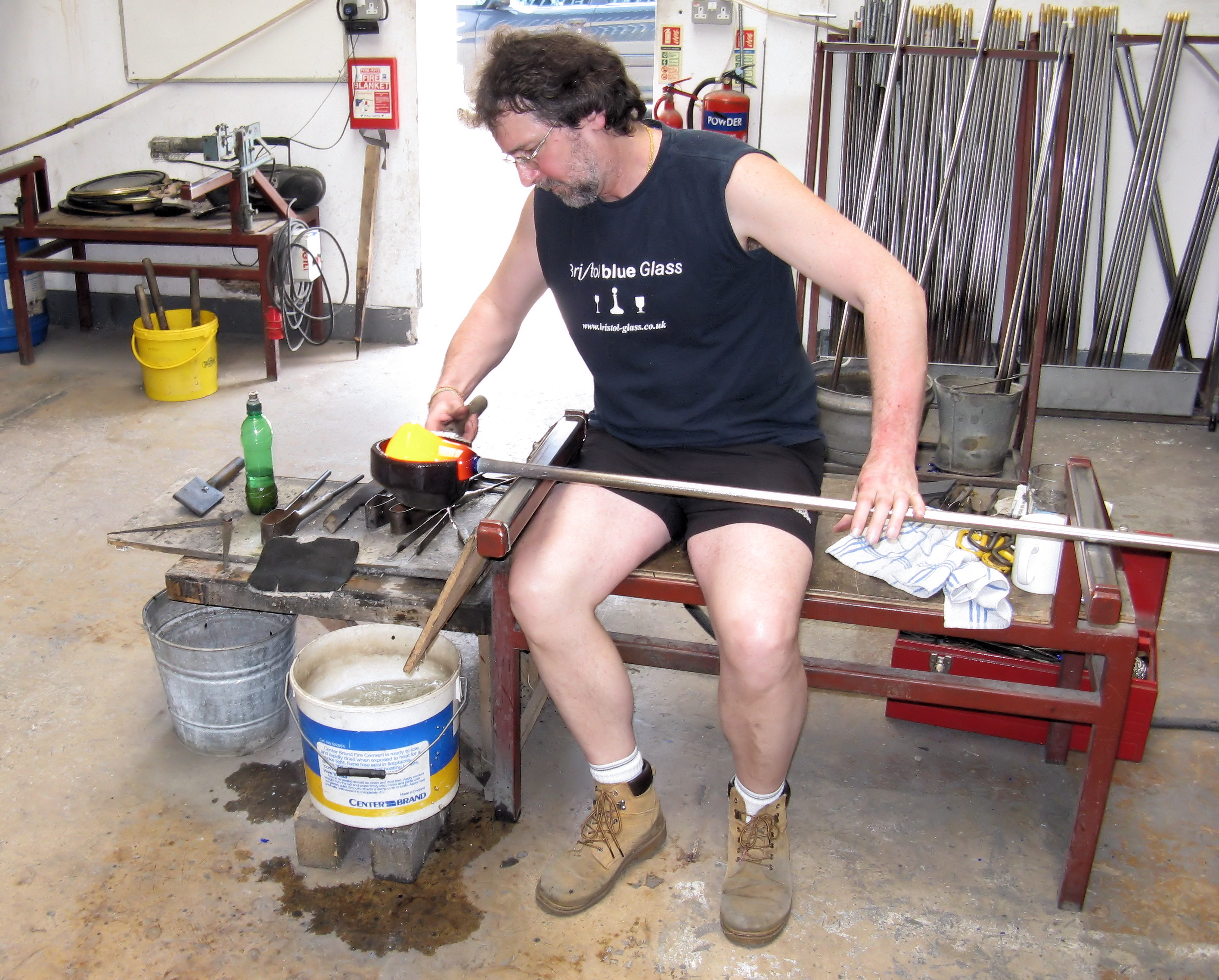 A stage in the manufacture of a ship’s decanter, at the Whitby Road, Brislington, Bristol, factory of Bristol Blue Glass. The “blowing tube” is held in the glassblower’s left hand. The glass is glowing yellow.